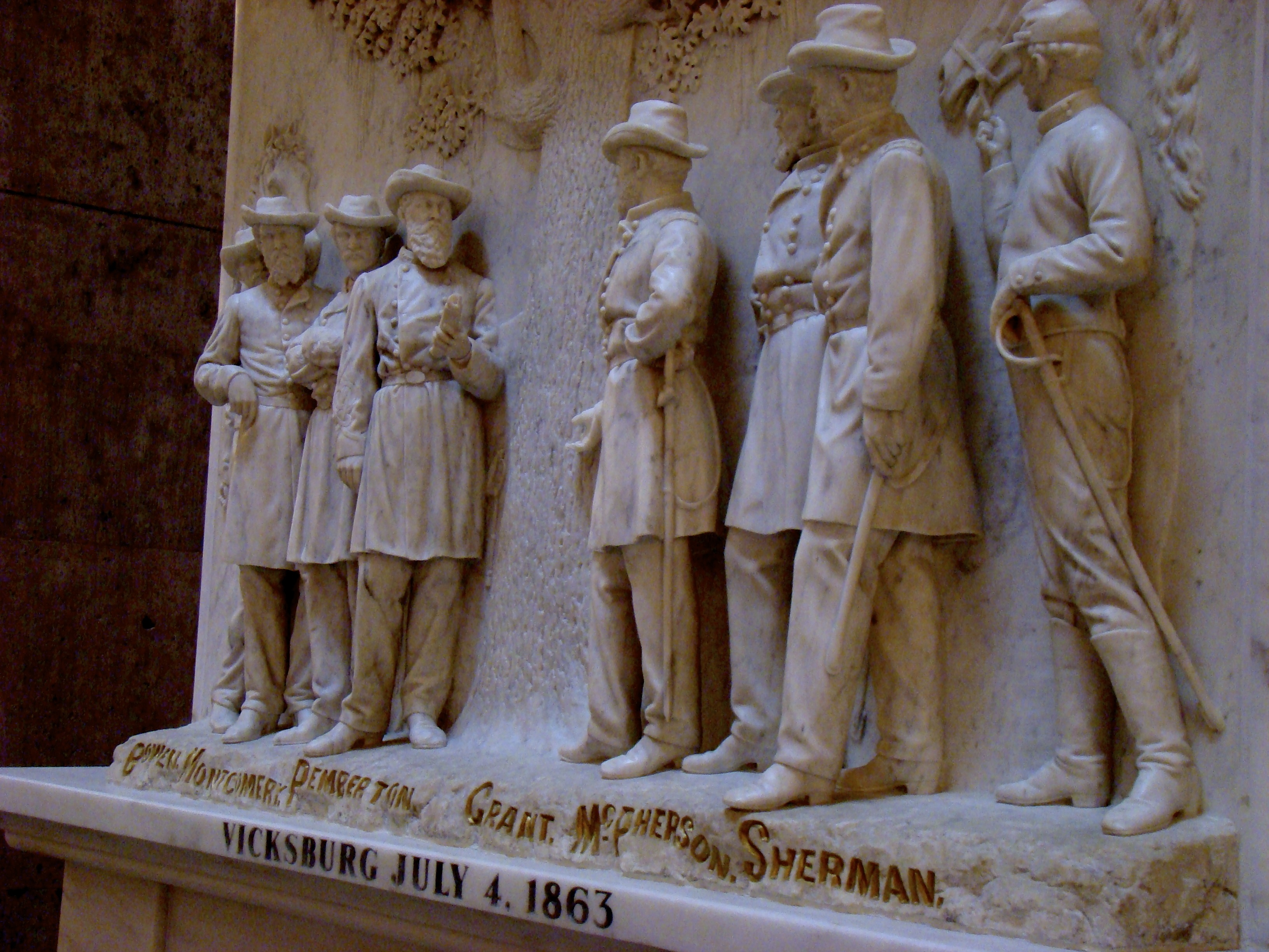 detail from sculpture commemorating the Battle of Vicksburg, July 4, 186